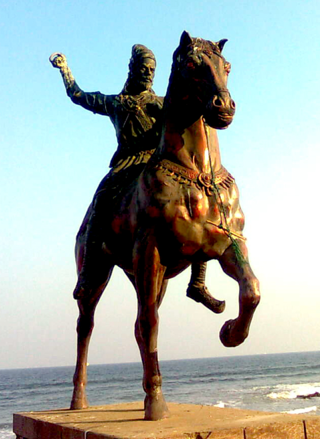 Statue of Chatrapathi Shivaji at Bheemunipatnam beach